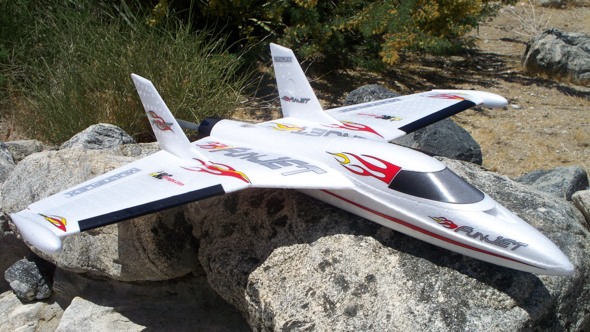 Multiplex Modellsport FunJET radio controlled model airplane owned and flown by user PMDrive1061